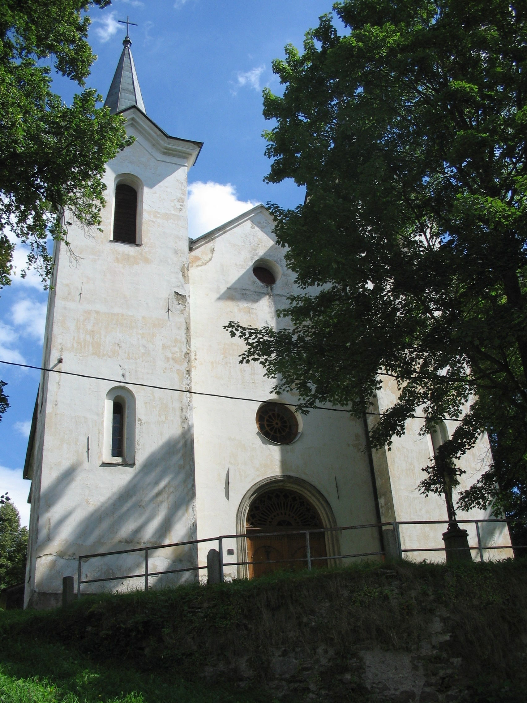 Saint Mary church in Kašperské Hory, Klatovy District, Czech Republic